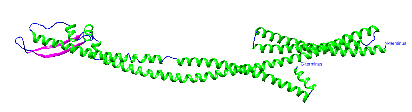 A model produced by the Phyre II software of C10orf67